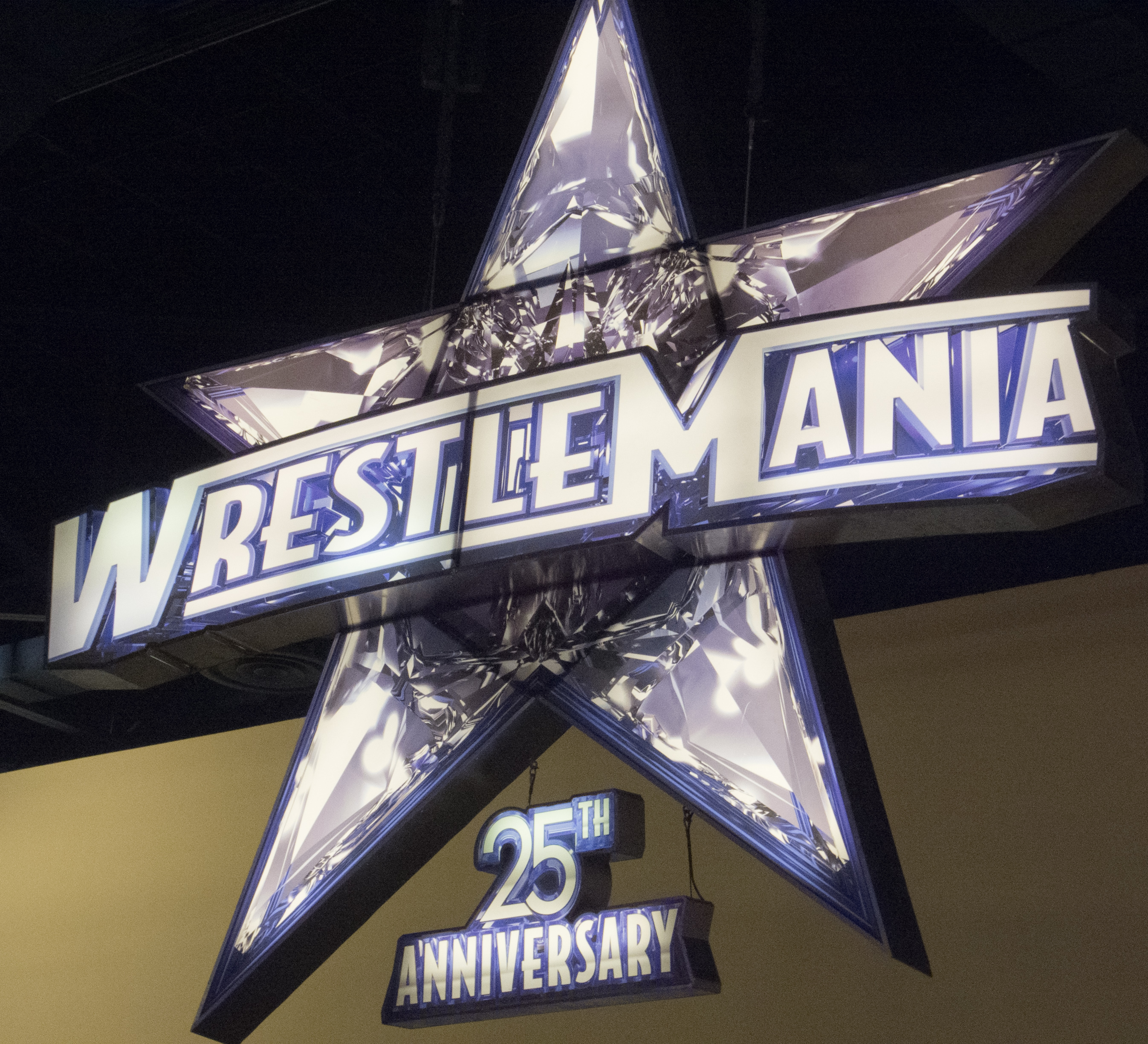 WWE Fan Axxess - Miami '12